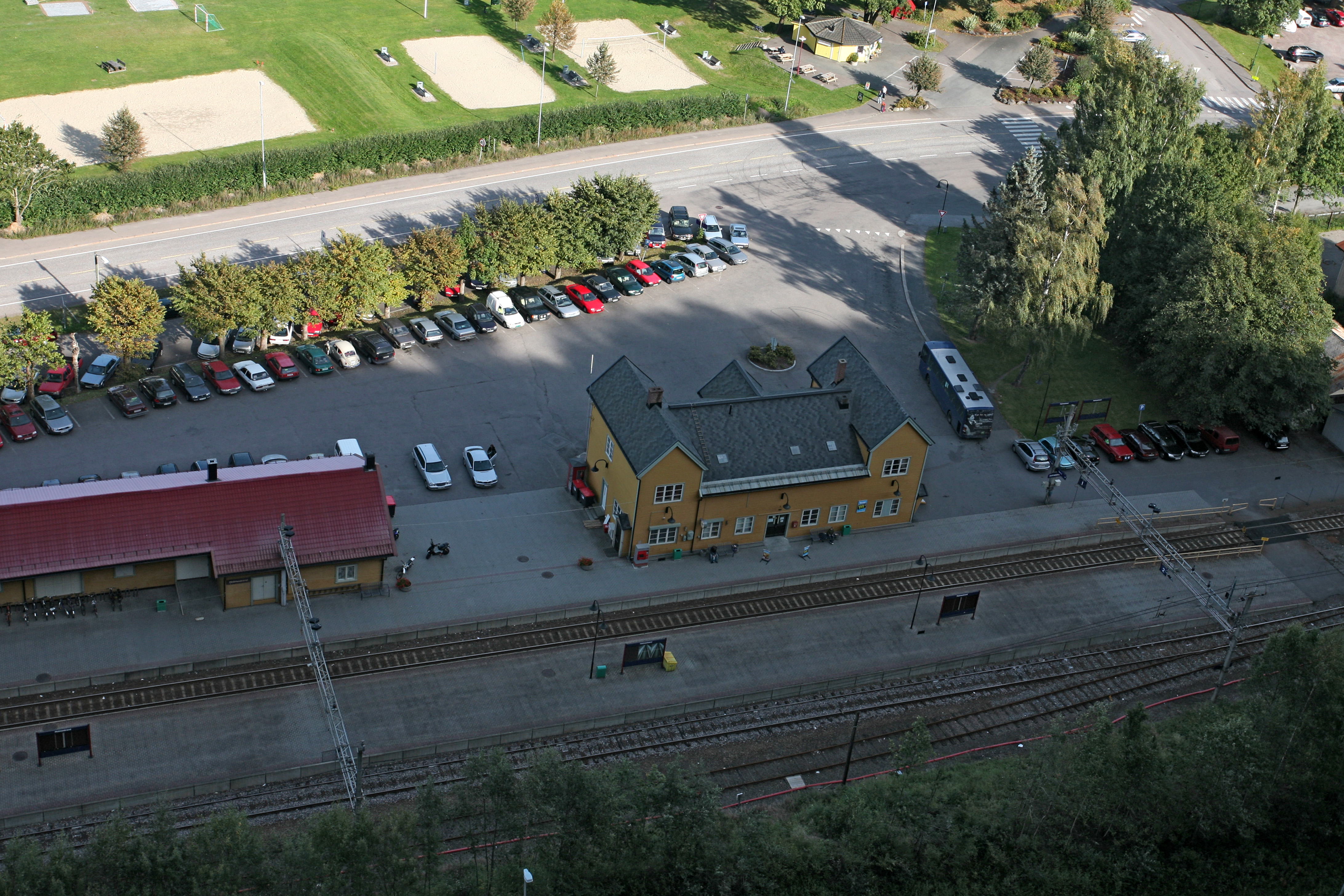 Picture of Holmestrand Railway Station (Vestfold - Norway)